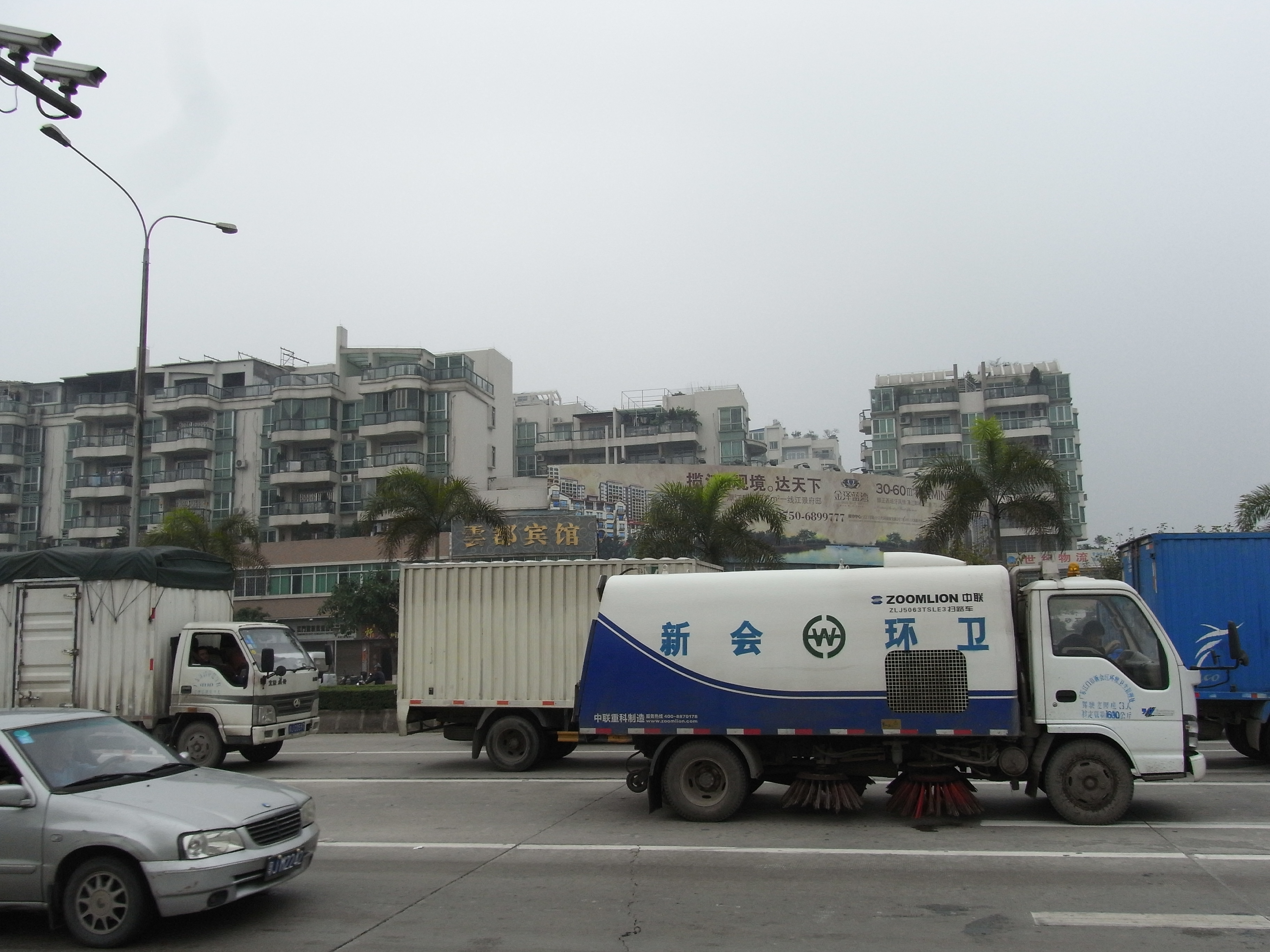 廣東 新會, Xinhui, Jiangmen, China